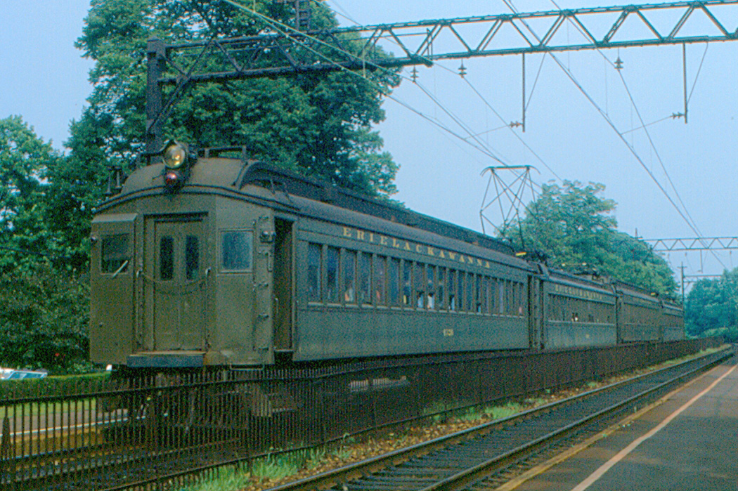 An Erie-Lackawanna Railroad commuter train set at Short Hills, New Jersey station on a weekend in 1978.